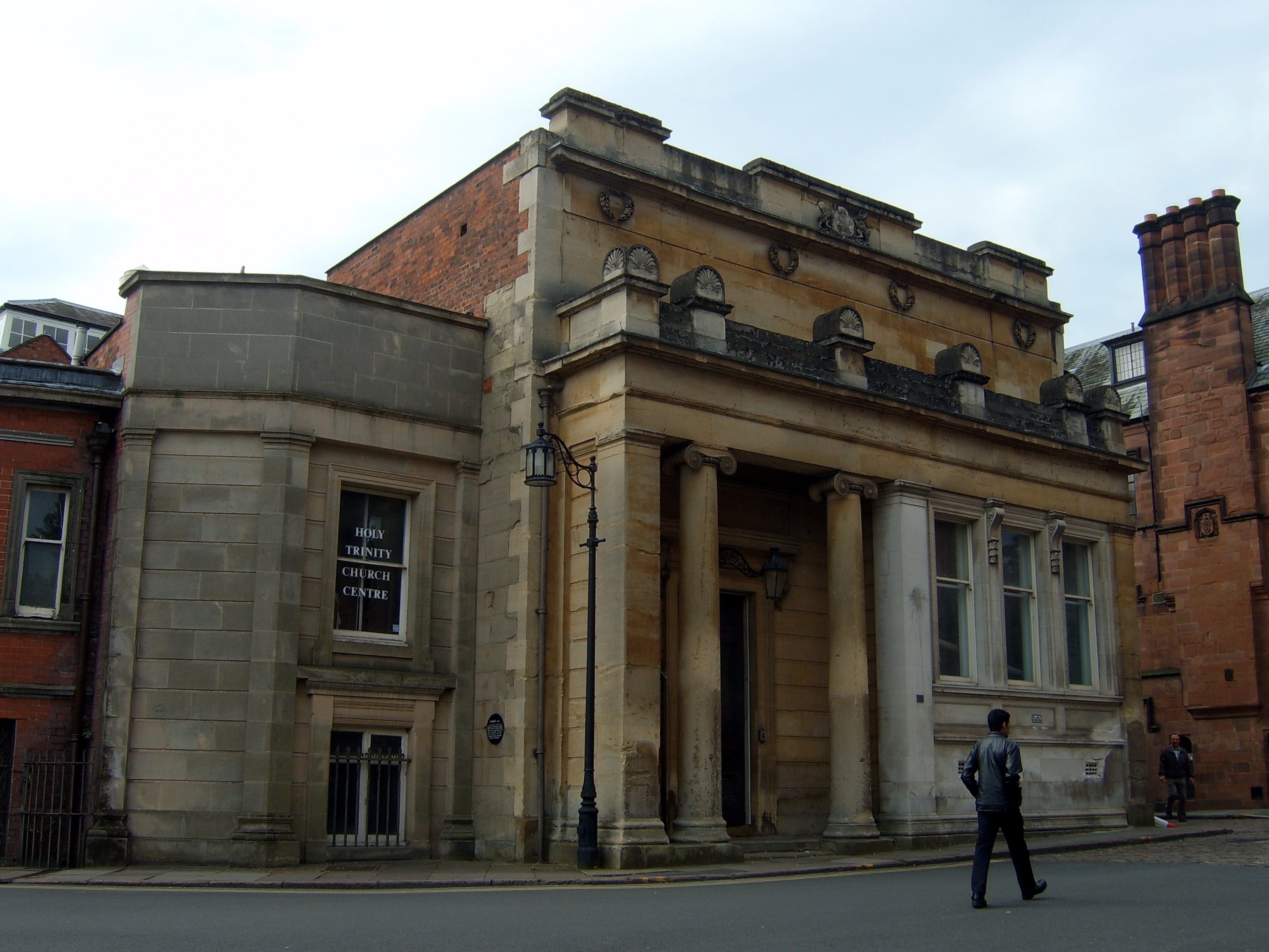 Draper's Hall, Coventry